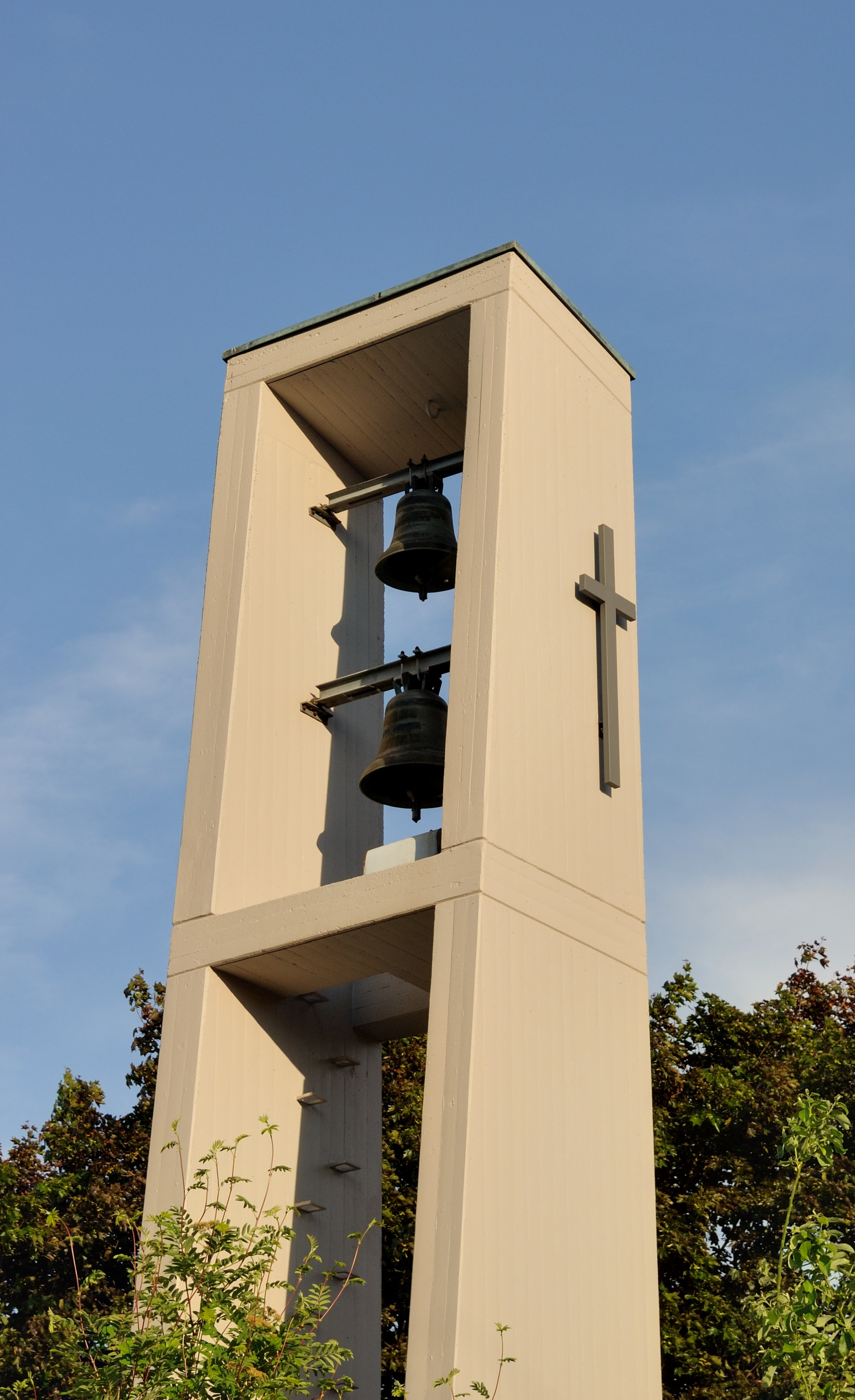 Huttingen: Saint Nicolaus Church